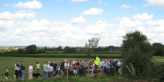 Threatened Green Belt, SE Bristol. Plans for new 'urban extensions' into the Green Belt and a dual carriageway (the South Bristol Ring Road) to link them to the motorways and airport have stimulated new local protest movements - like this one 'walking the route' of the new road